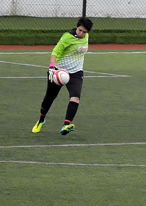 Duygu Yılmaz playing for Ataşejir Belediyespor in the 2013-14 season